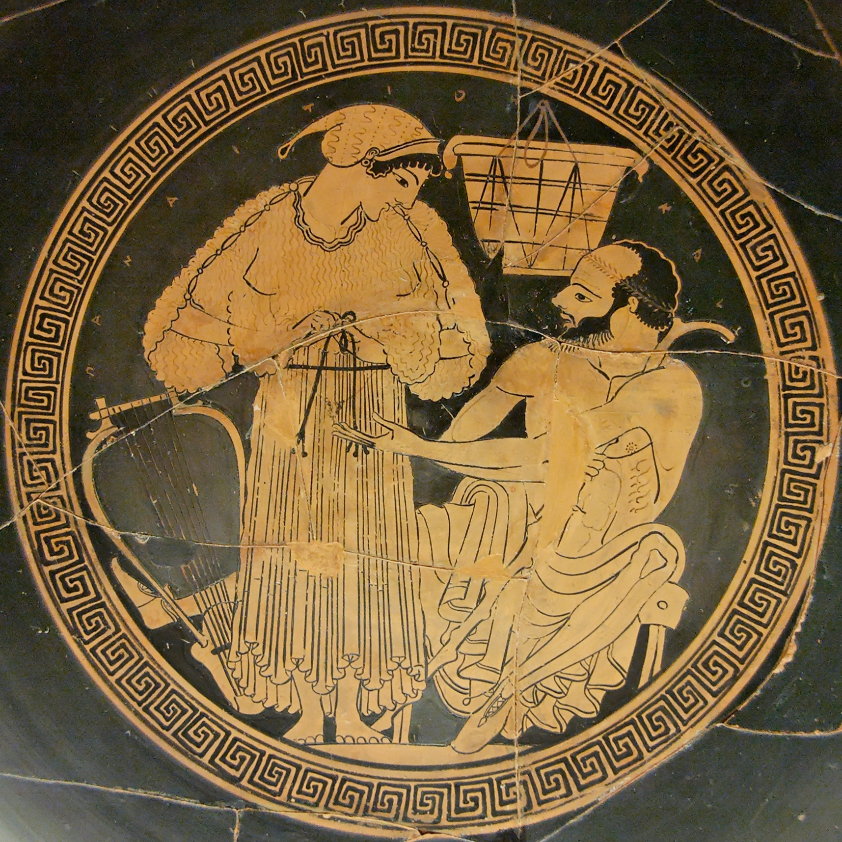 A courtesan ties up her himation (long garment) again while her middle-aged client watches up. The lyre show her to be a musiciancalled for a banquet. Interior from an Attic red-figured kylix, ca. 490. From Vulci.